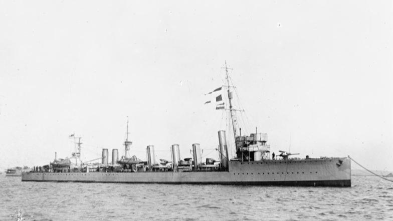 Photograph of British Marksman/Lightfoot class destroyer flotilla leader HMS Nimrod.